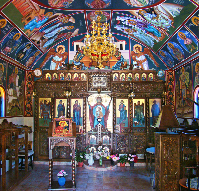 Church of Agia Anna, Maritsa, Rhodes, Greece.